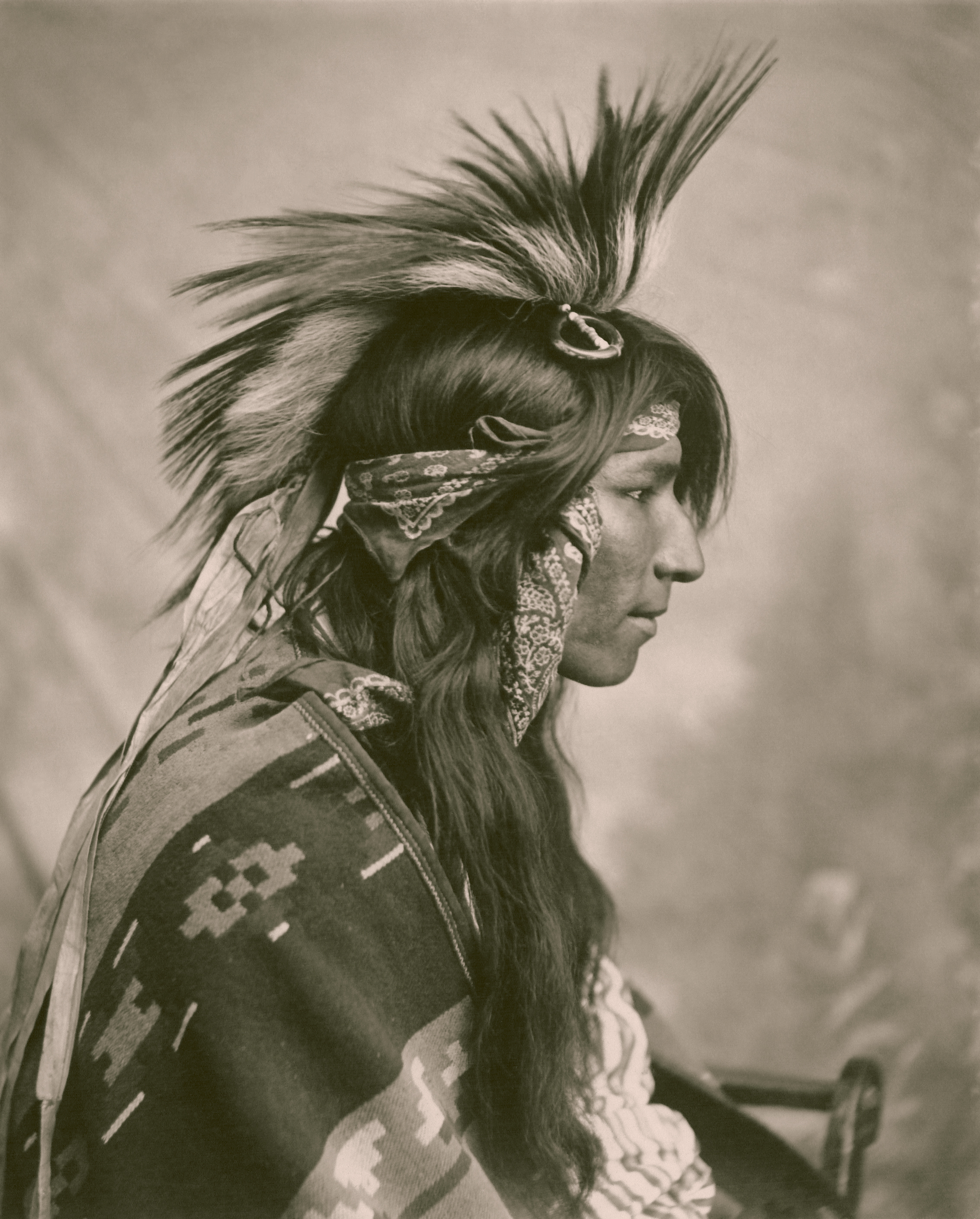 Original caption: "Cree Indian.."According to the Library and Archives Canada (whose copy of this image is indexed as Copy Begative PA-028983, Mikan no.3192400), the photograph was taken in Maple Creek, Saskatchewan.